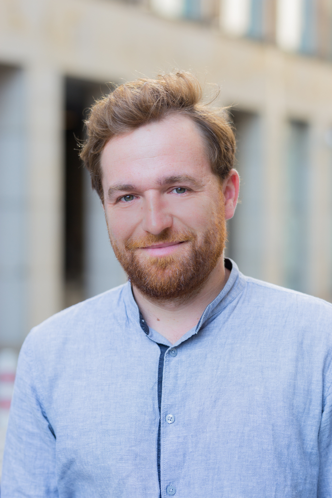 Jan Mencwel, a Polish activist.